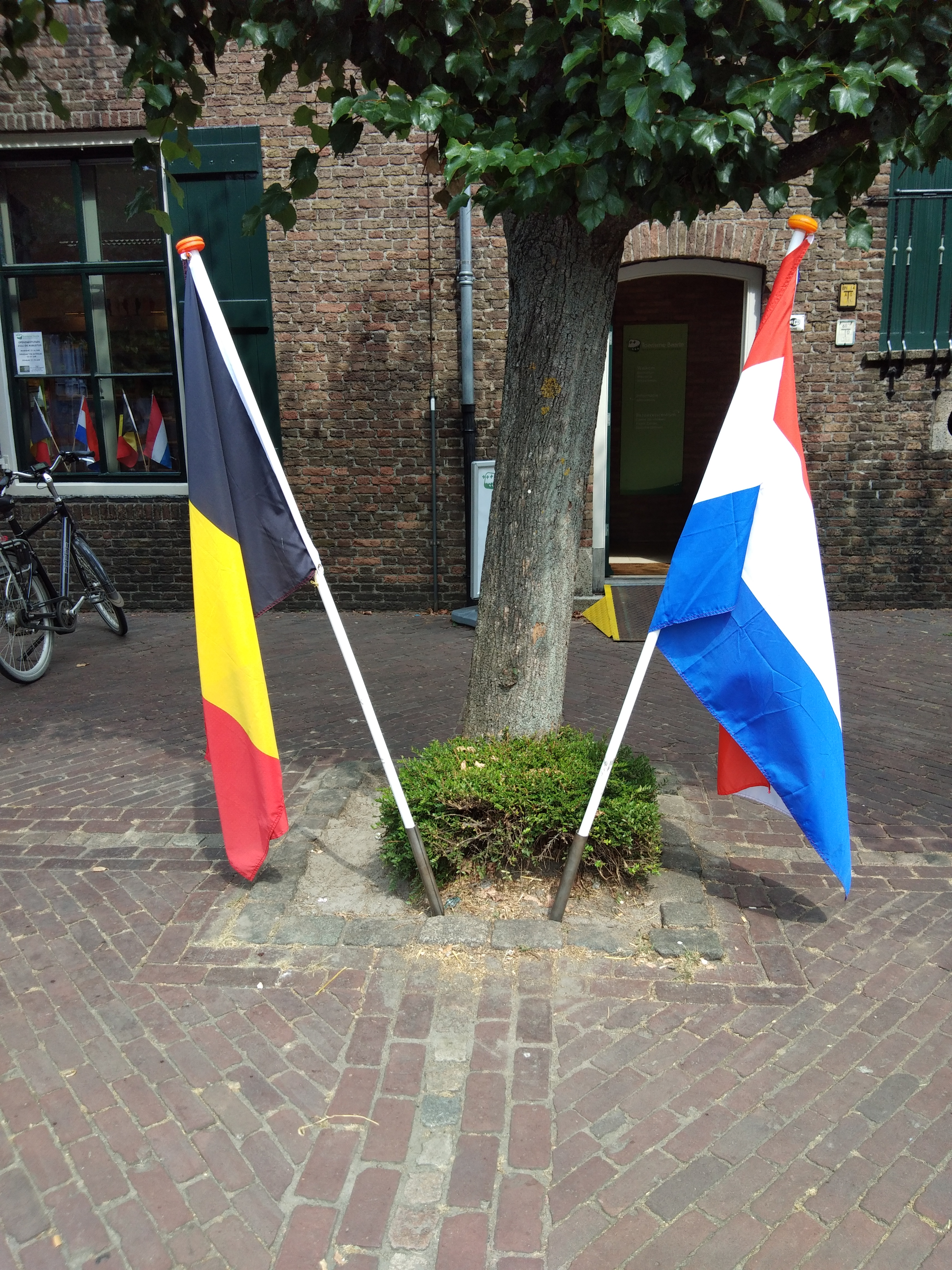 Belgian and Dutch flags outside of the Tourist Information Centre in Baarle.